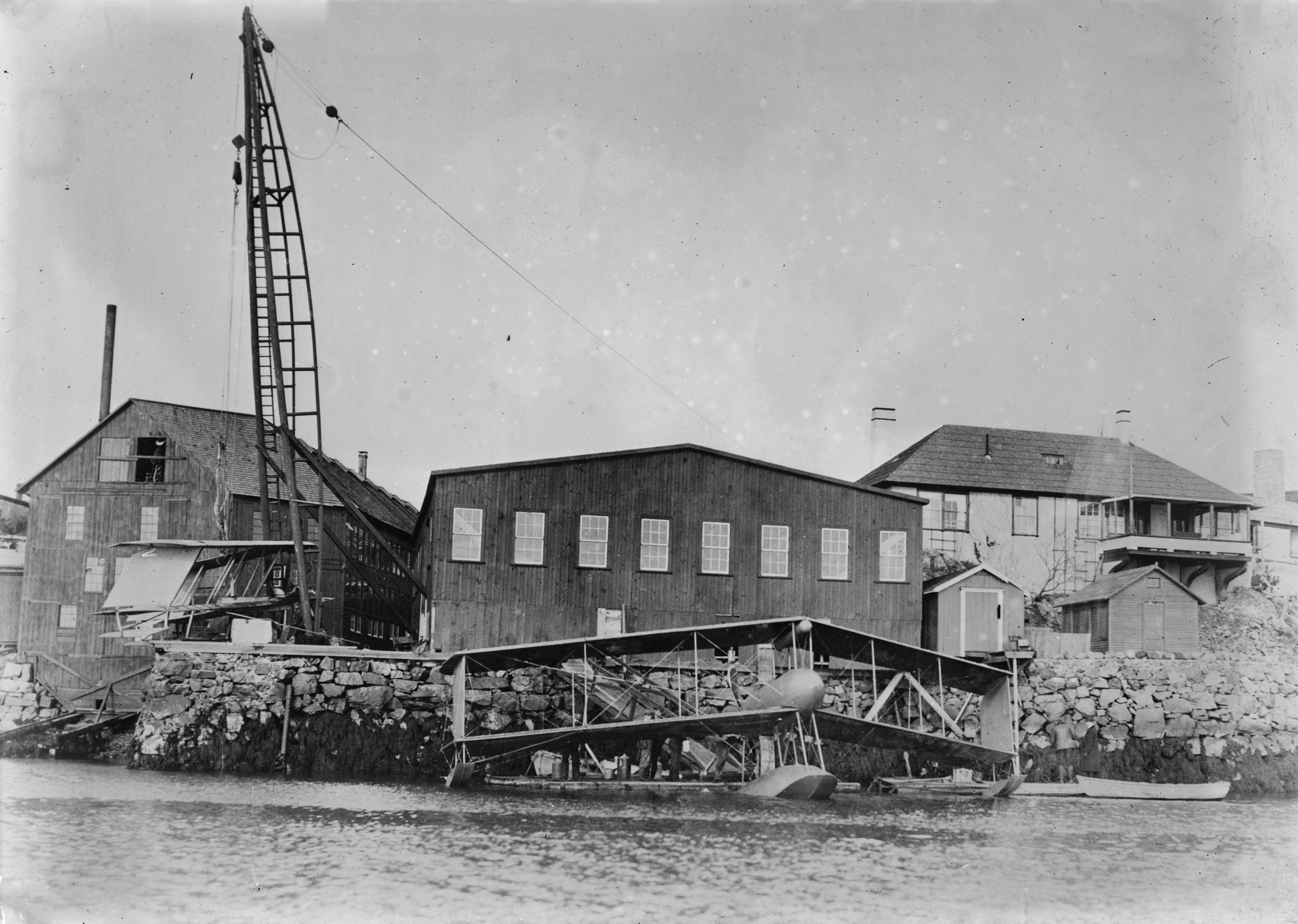 A Burgess-Dunne AH-7 seaplane built for the U.S. Navy, circa 1914. It was built by Burgess under license, one of which became Canada's first military aircraft. Burgess fitted a tailless biplane designed by John Dunne in England with central floats. The U.S. Navy purchased several as the AH-7 in 1914.